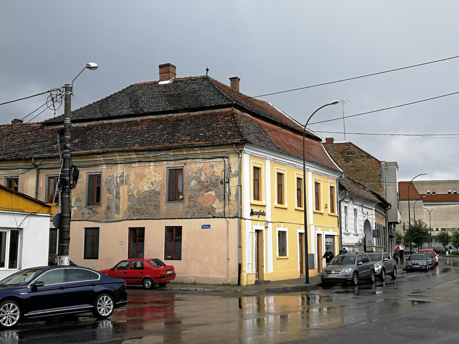 Călărașilor street house number 52